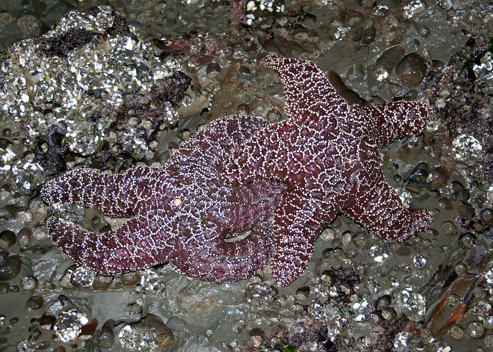 Purple and orange Ocre Sea Stars at Cape Kiwanda, Pacific City, July 2012